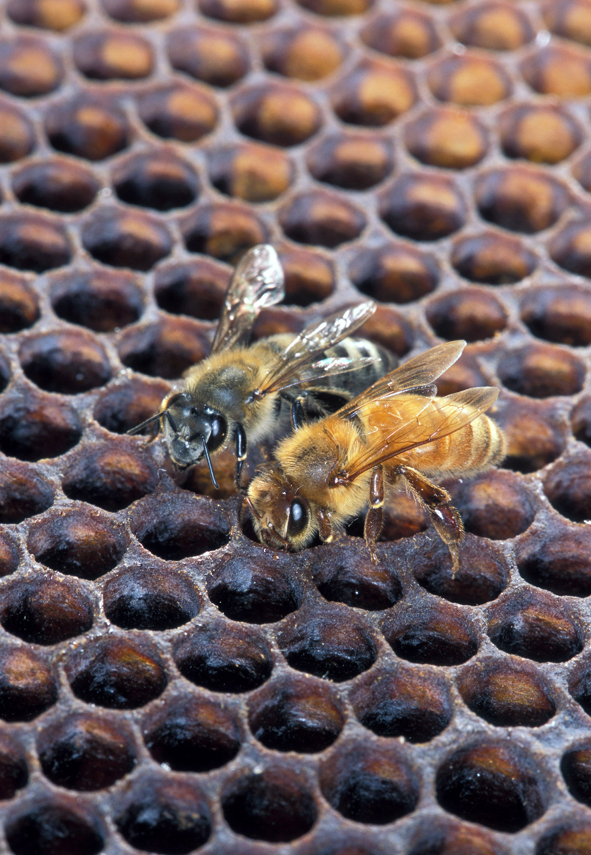 Apis mellifera scutellata Common Name: Africanized honey bee Photographer: Scott Bauer, USDA Agricultural Research Service, United States Descriptor: Adult(s) Description: An Africanized honey bee (left) and a European honey bee on honeycomb. Despite color differences between these two bees, normally they can't be identified by eye. Image taken in: United States